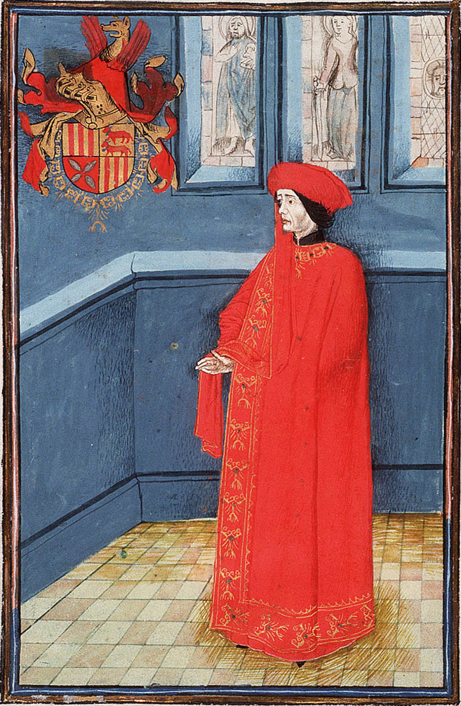 Statuts, Ordonnances et Armorial de l'Ordre de la Toison d'Or (Statutes, Ordonnances and armorial of the Order of the Golden Fleece) Place of origin, date: Southern Netherlands; 1473. Added sections: Southern Netherlands; 1478 or shortly after and 1491 or shortly after Material: Vellum, ff. 86, 249x187 (167x106) mm, 23 lines, littera cursiva (lettre bourguignonne). French. Binding: 18th-century brown leather Decoration: 1 full-page miniature (170x115 mm) with border decoration; 92 miniatures (185/155x120/100 mm); 1 historiated initial (80x90 mm) with border decoration; decorated initials with border decoration (ff., Added section: miniatures ; 4 drawings for miniatures (not finished) Provenance: Presented in 1473 by Gilles Gobet, King of Arms of the Order of the Golden Fleece, to Charles the Bold, Duke of Burgundy and the other Knights during the Chapter of the Order held at Valenciennes; Treasure of the Golden Fleece, Brussls; taken away by the Treasurer C.-F. Humyn (d. 1735) or his daughter C.Ch. de Corte; by legacy to her daughter M.-L. de Corte, wife of Ph.-E. de Poederlé; purchased in 1781 at the Poederlé sale by G.-J- Gérard of Brussels; acquired in 1832 as part of the Gérard collection (no. A 27)